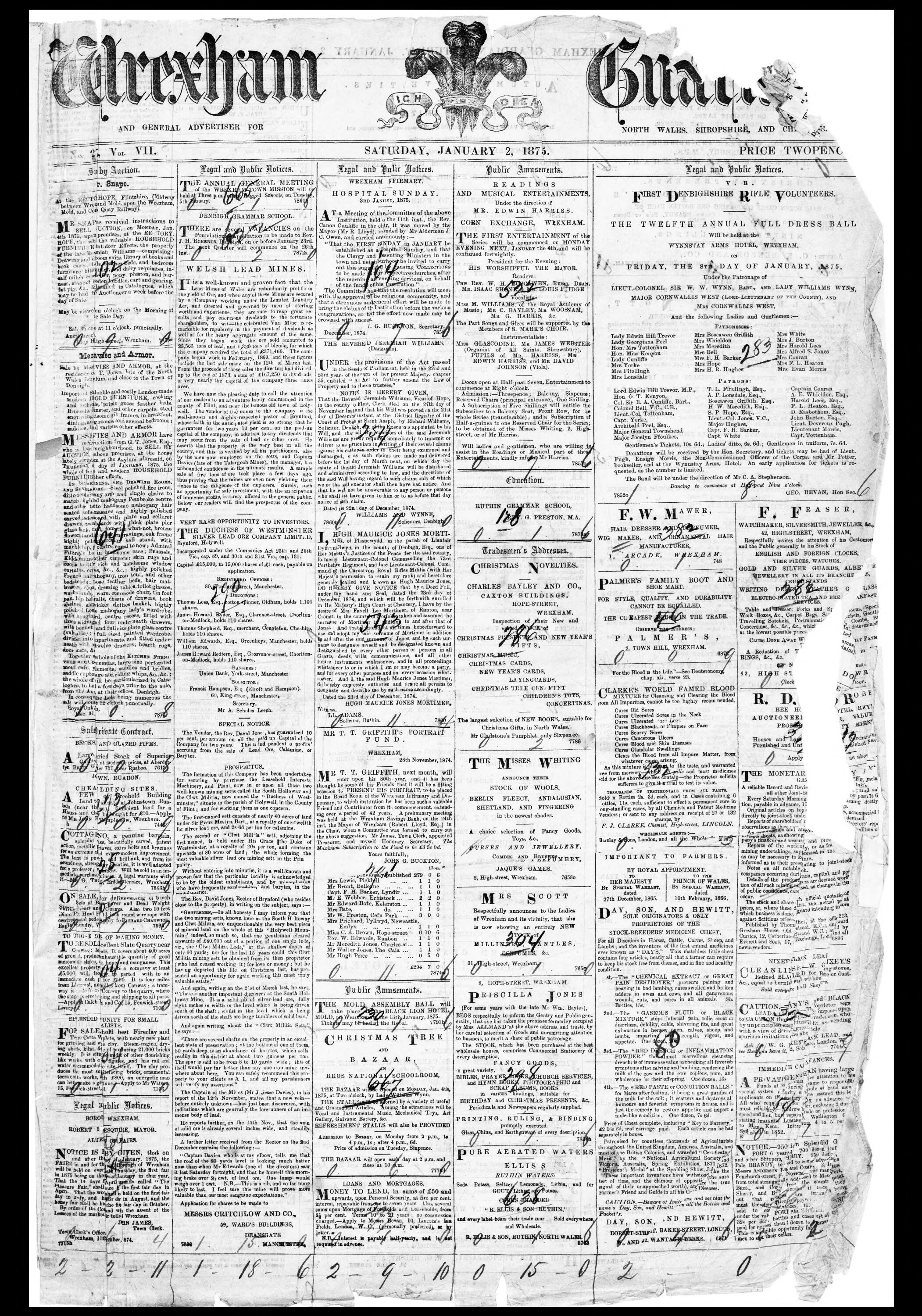 Front page of the earliest surviving copy of the Welsh newspaper Wrexham Guardian